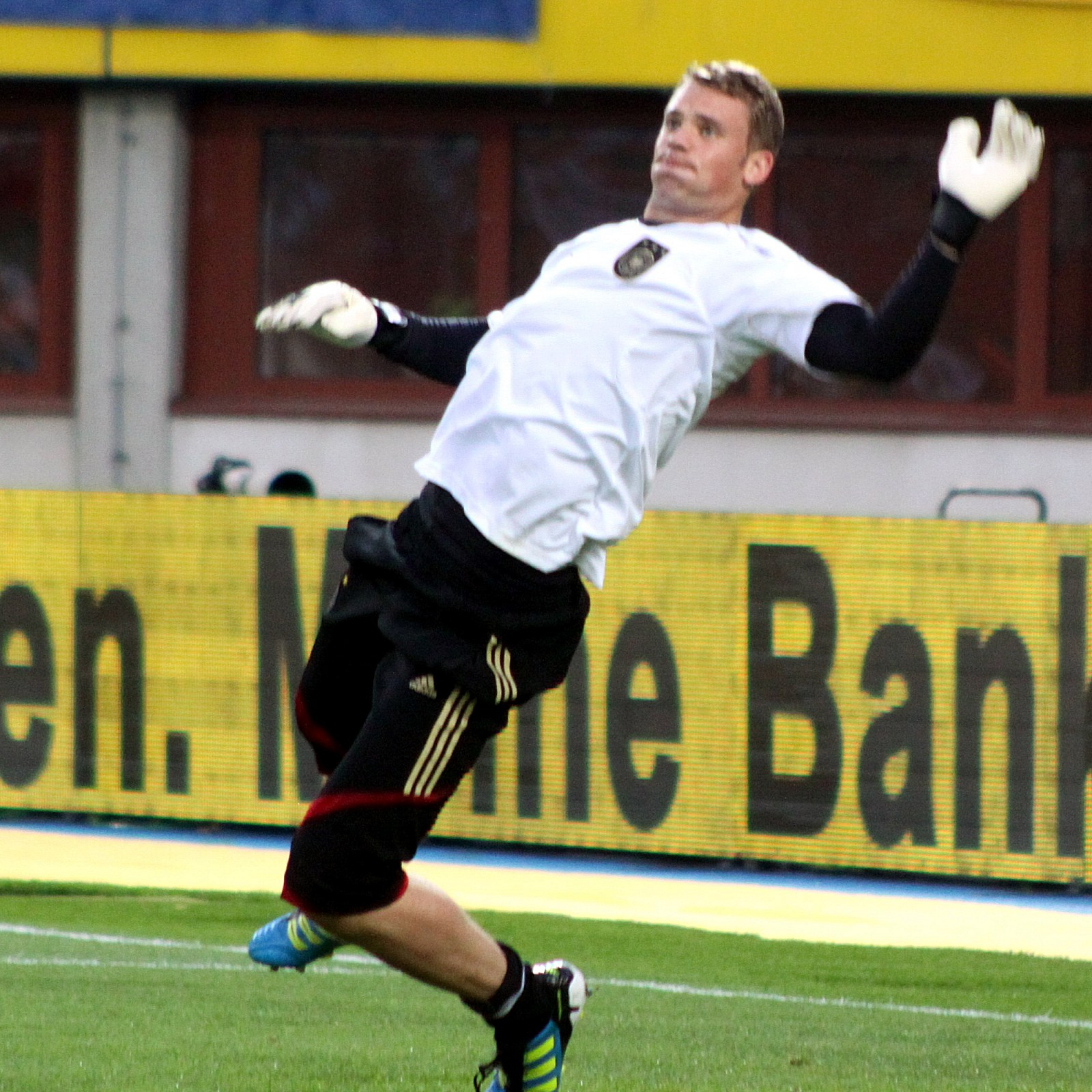 Manuel Neuer (FC Schalke 04 / FC Bayern München), german national football team